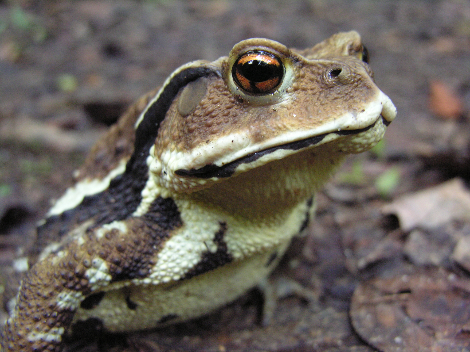 Japanese Common Toad, Aichi Japan